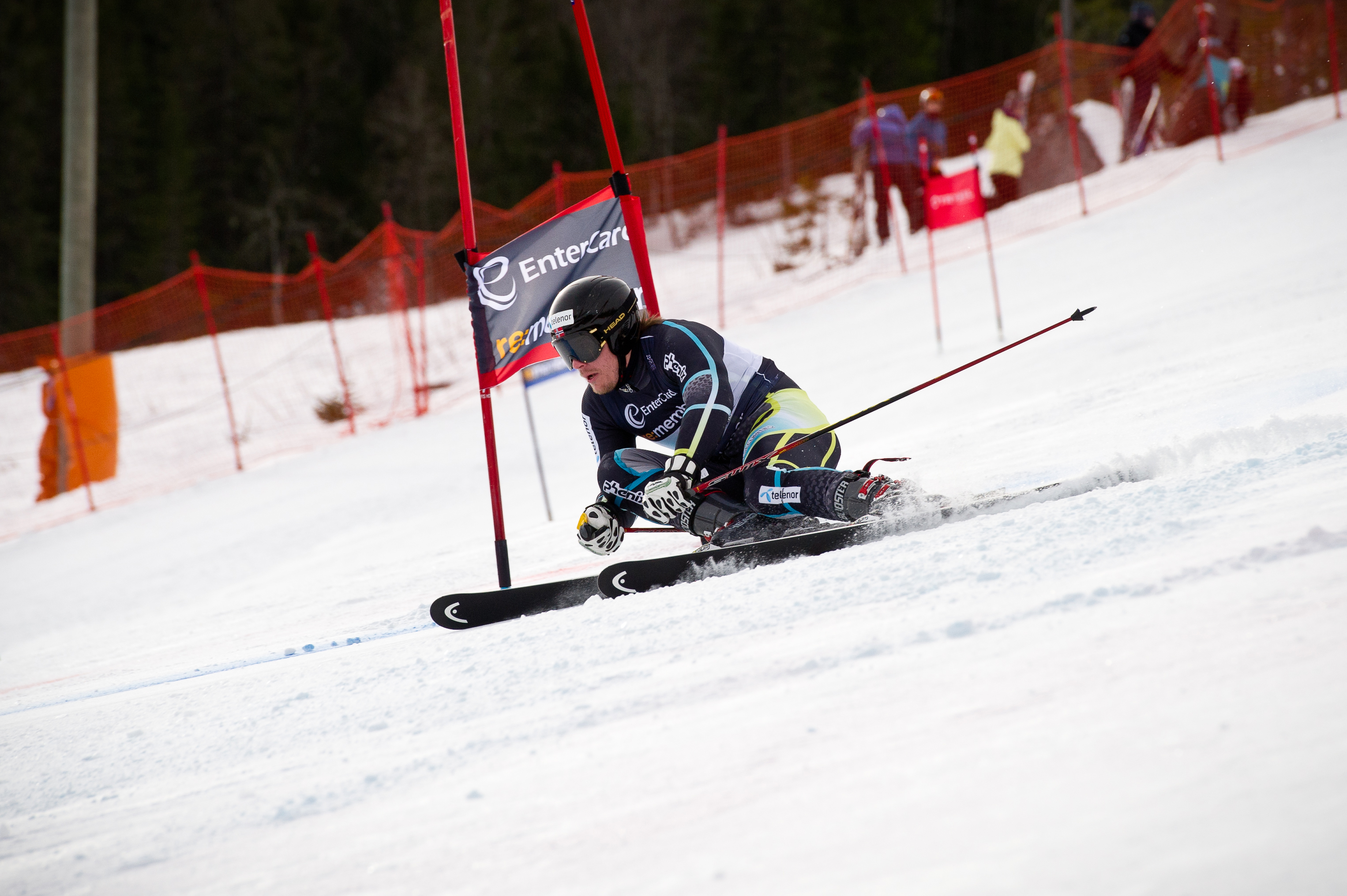 Kjetil Jansrud competes in the men's giant slalom event at Trysil during the 2011 national championships in Norway. photo © Ola Matsson